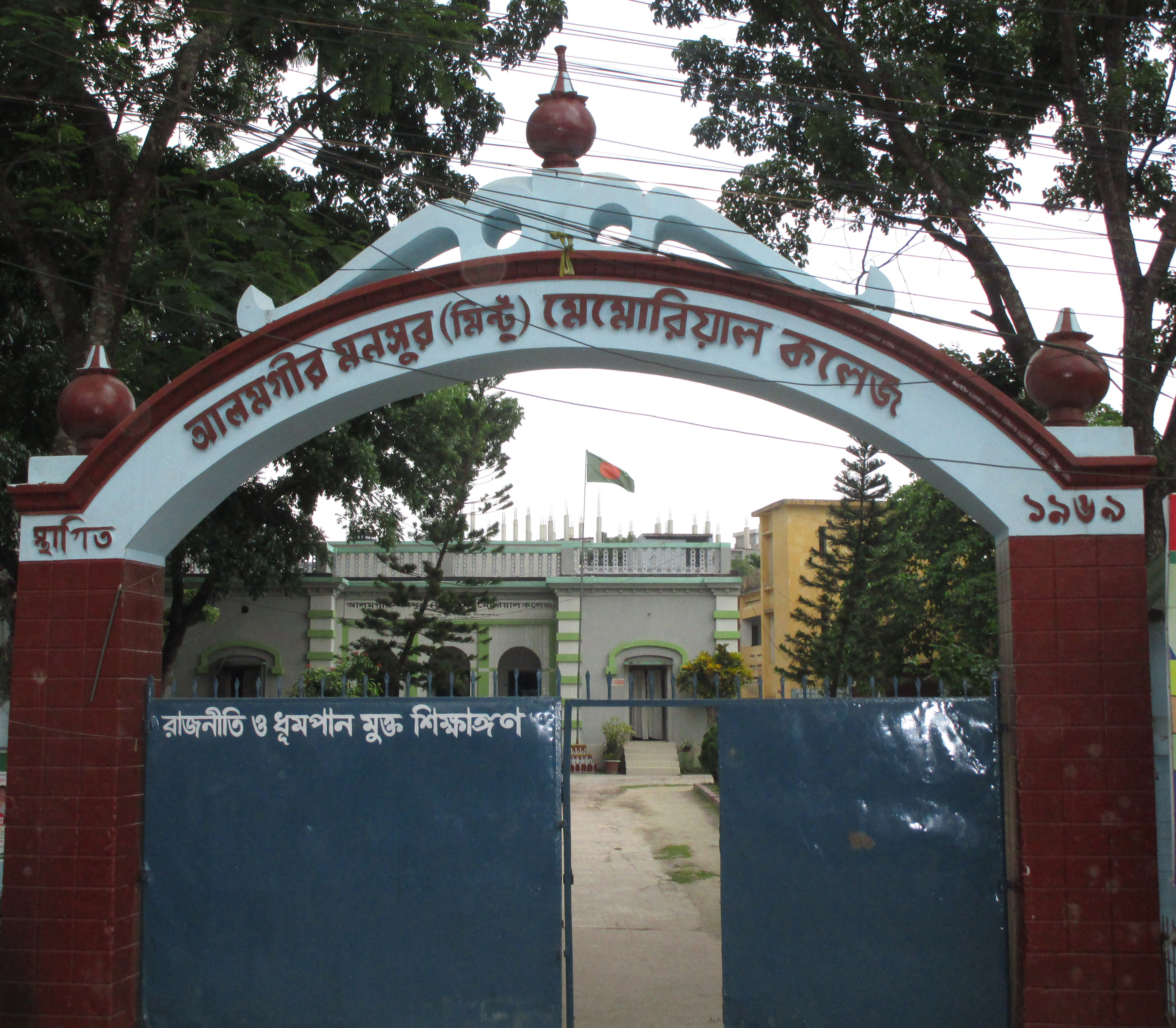 The main gate of Alamgir Mansur Mintu Memmorial College